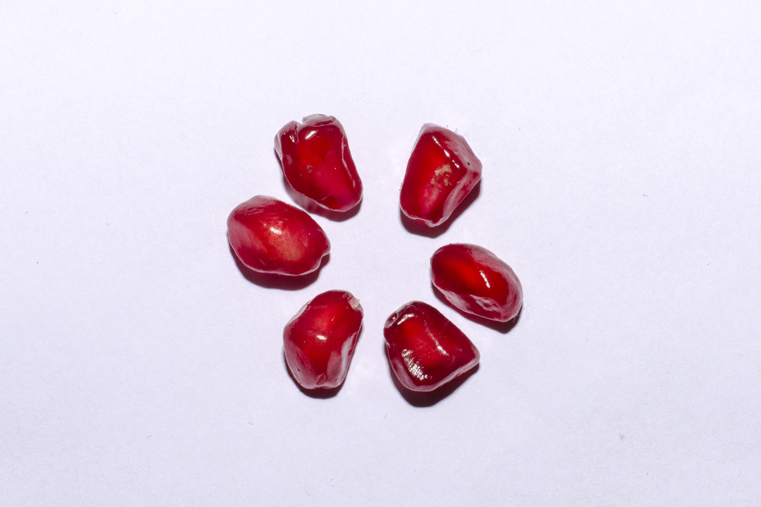 Pomegranate Seeds